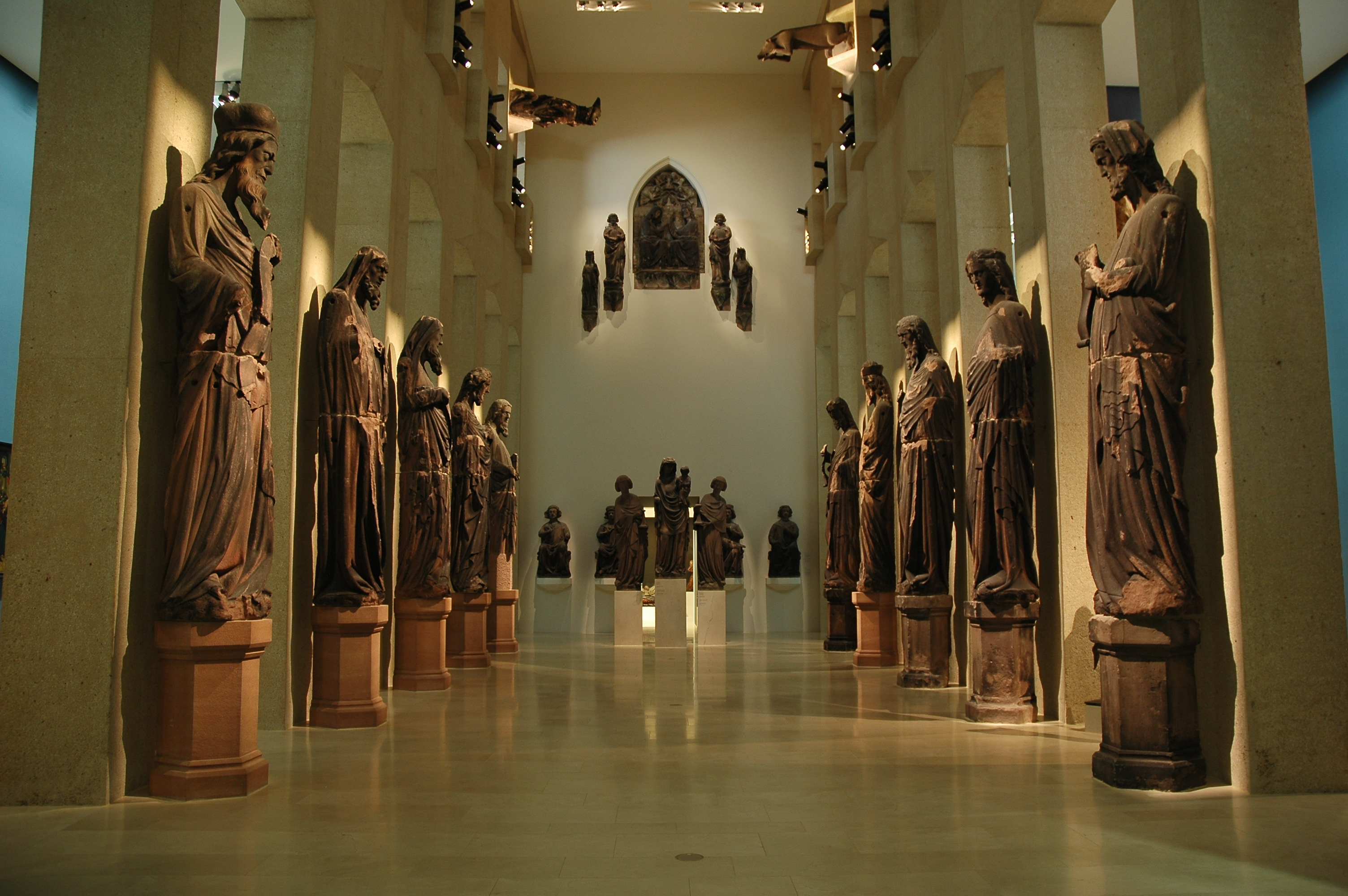 The sculpture hall, Augustiner Museum with figures of prophets from Freiburg cathedral